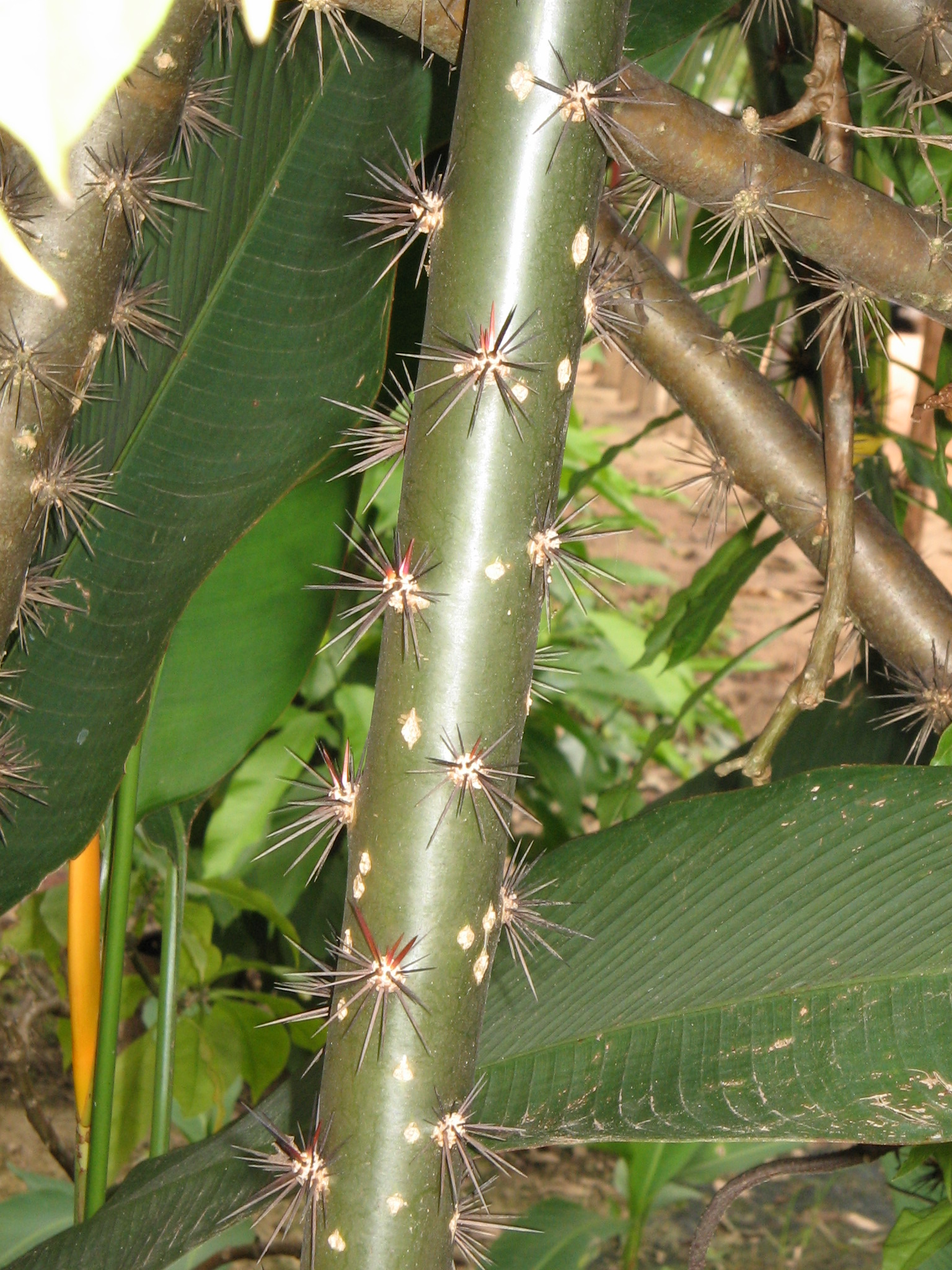 Pereskia bleo stem with spines